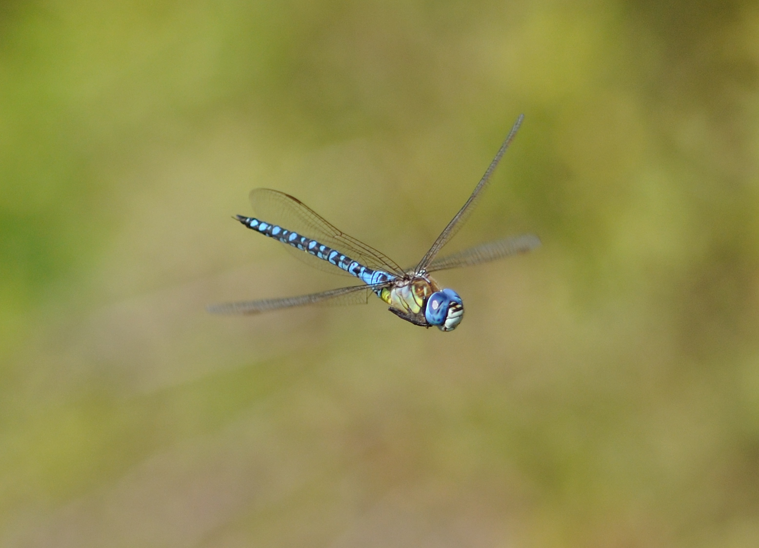 Male Southern Migrant Hawker (Aeshna affinis) in flight near the old airstrip, Frankfurt, Germany.